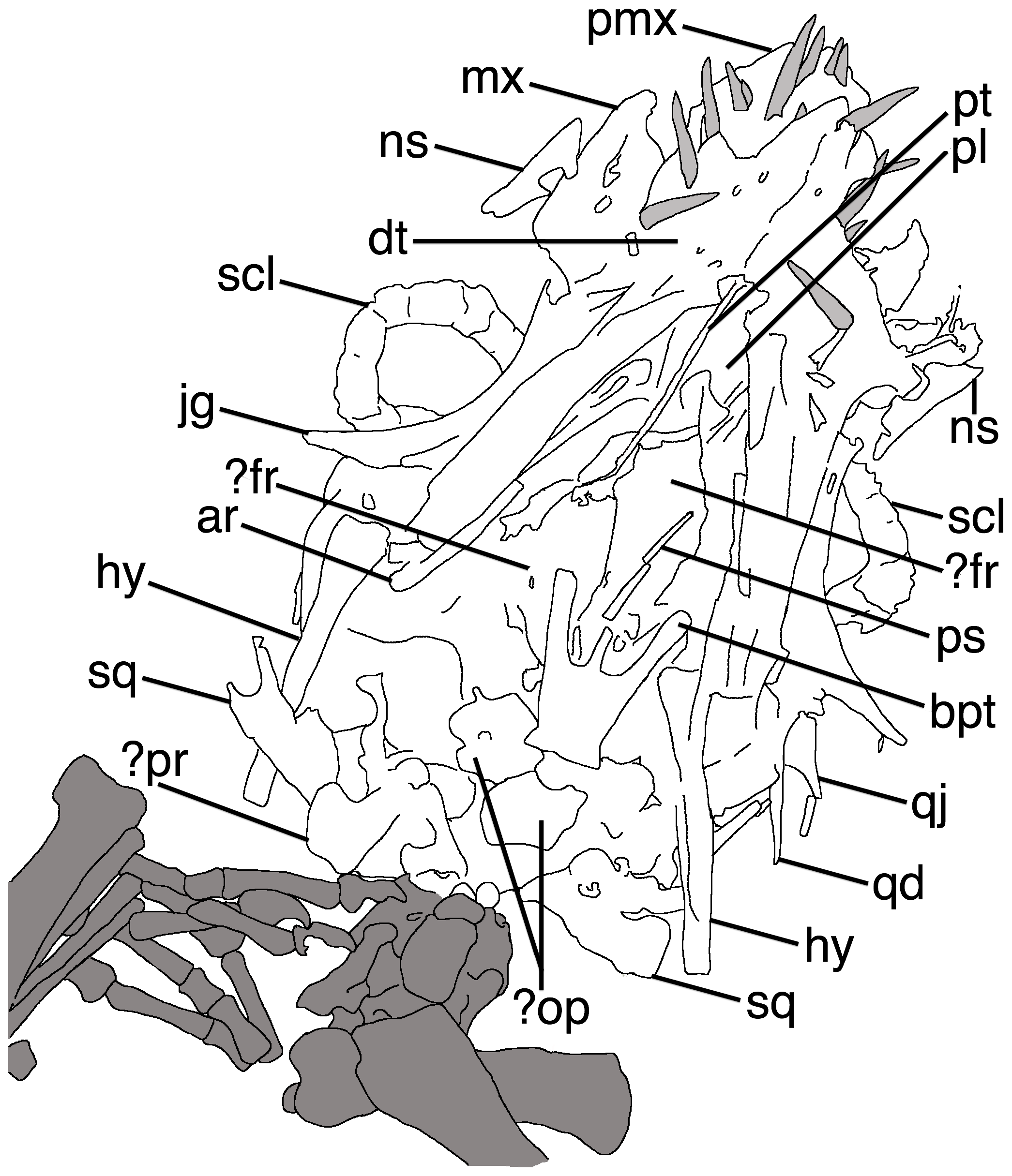 Line drawing of the holotype of Bellubrunnus. Abbreviations as follows for this and, where appropriate, subsequent figures: cdv, caudal vertebrae; chv, chevron; co, coracoid; cp, carpus; cs, cristospine; cr, cervical rib; cv, cervical vertebrae; dr, dorsal rib; dv, dorsal vertebrae; fb, fibula; fe, femur; g, gastralium; hu, humerus; il, ilium; ish, ischium; mc, metacarpal; md, manual digit; mn, manus; pb, pubis; pd, pedal digit; ppb, prepubis; ptd, pteroid; r, ribs; rad, radius; sc, scapula; sk, skull; st, sternum; ul, ulna; wmc, wing metacarpal; wpx, wing phalanx. Single column width.